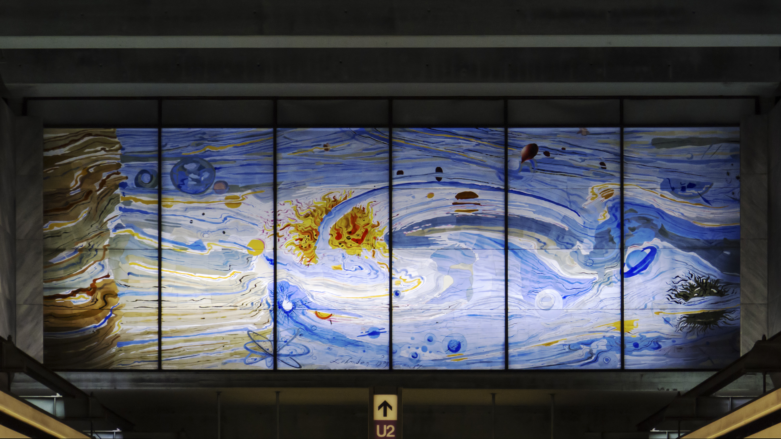 Underground station U-Bahnhof Volkstheater (Wien) in Vienna